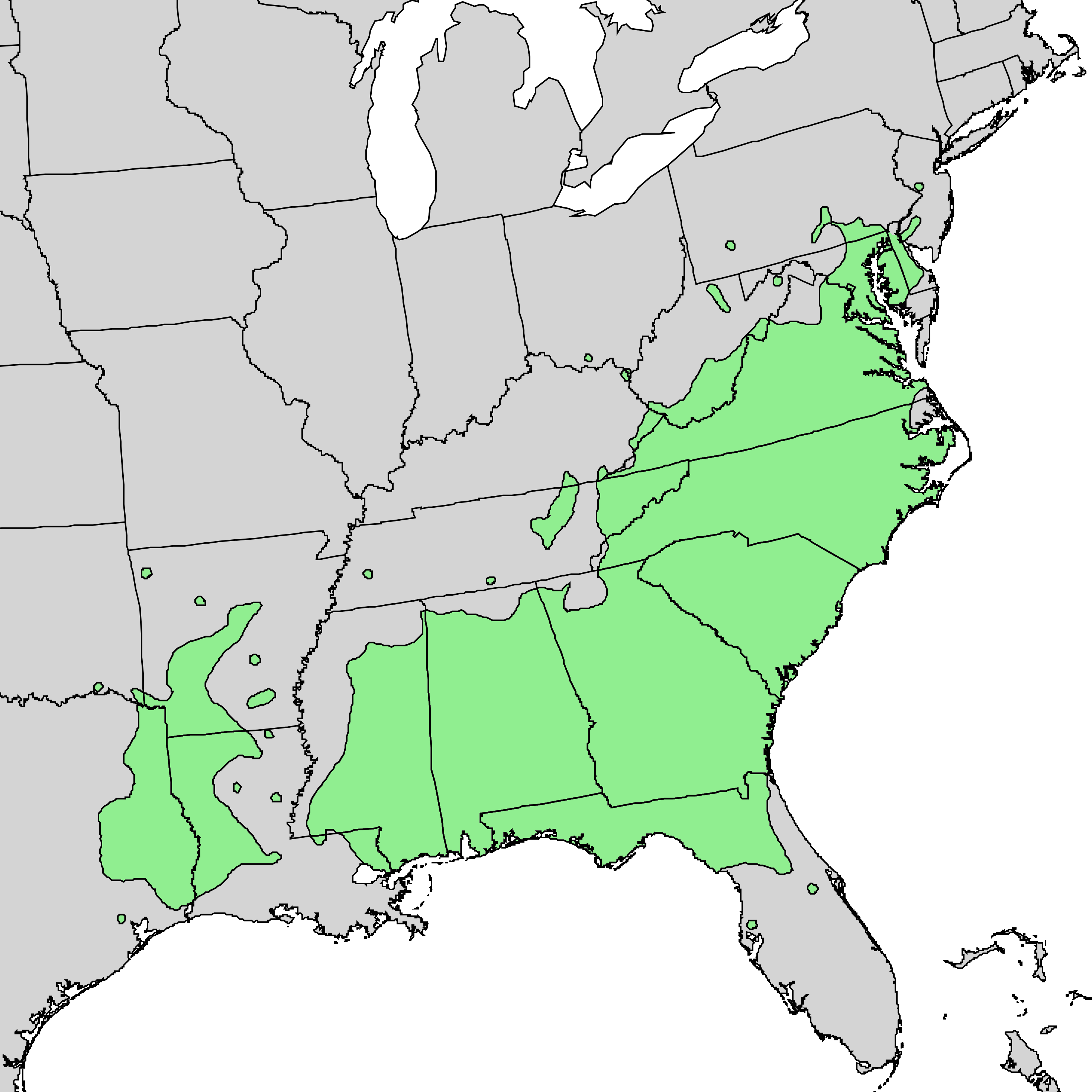 Natural distribution map for Castanea pumila range